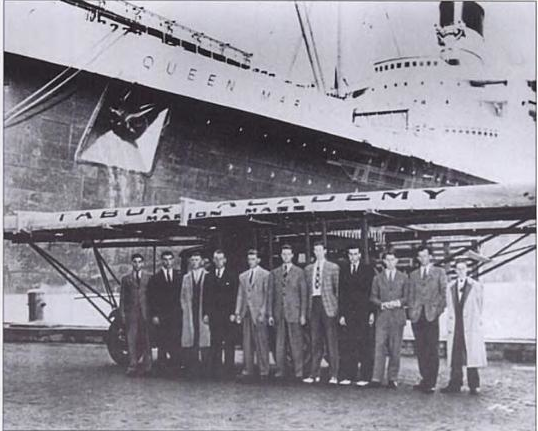 The Tabor Academy oarsmen prepare to board the Queen Mary, with their rowing shell in the background, to travel to England to compete in the Thames Challenge Cup of the Henley Royal Regatta in 1939. They returned home as the champions of the regatta for the third time in four years.